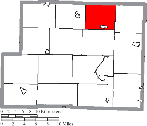 Map of the municipal and township boundaries of Harrison County, Ohio, United States, as of the 2000 census, with the location of Rumley Township highlighted. Township borders are shown only in unincorporated areas in order to differentiate incorporated and unincorporated areas more clearly.